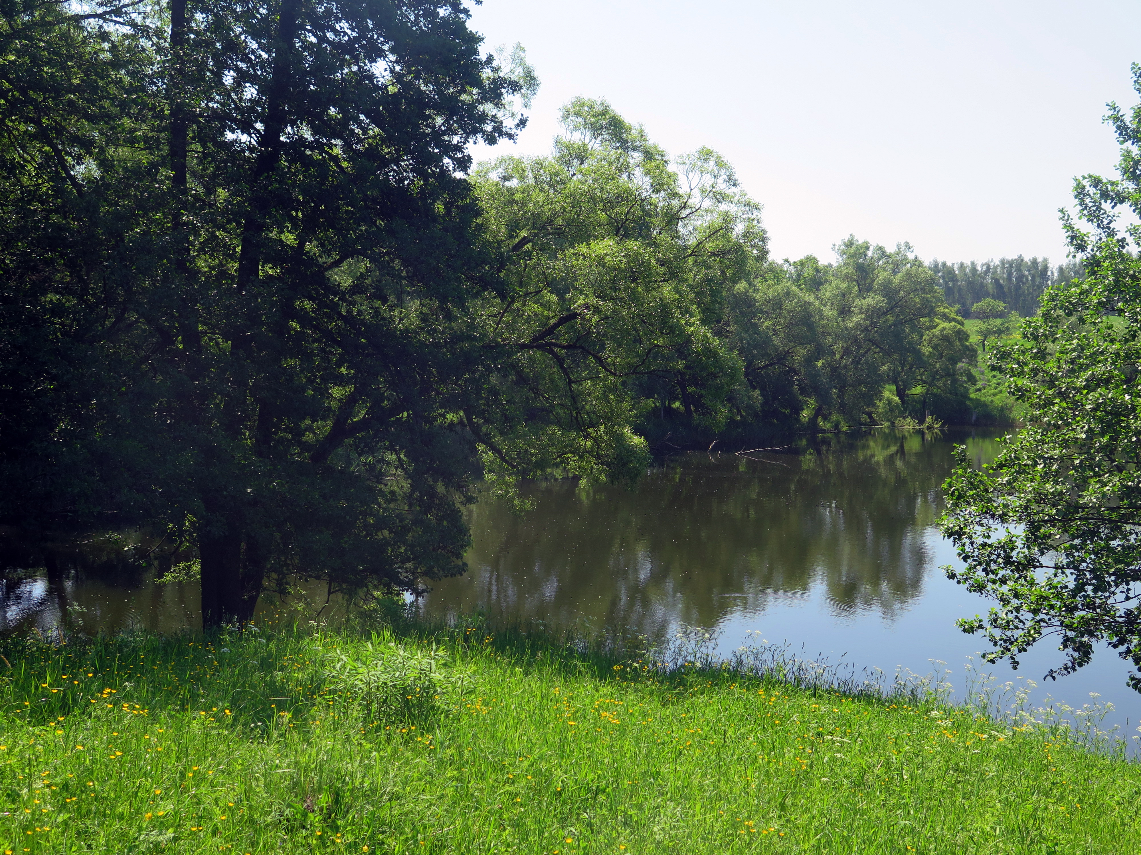 The park planted by Valery Lyaskovsky in 1880-th in his estate Dmitrovskoye-Istomino (now village Streletskii, Orel region, Russia)